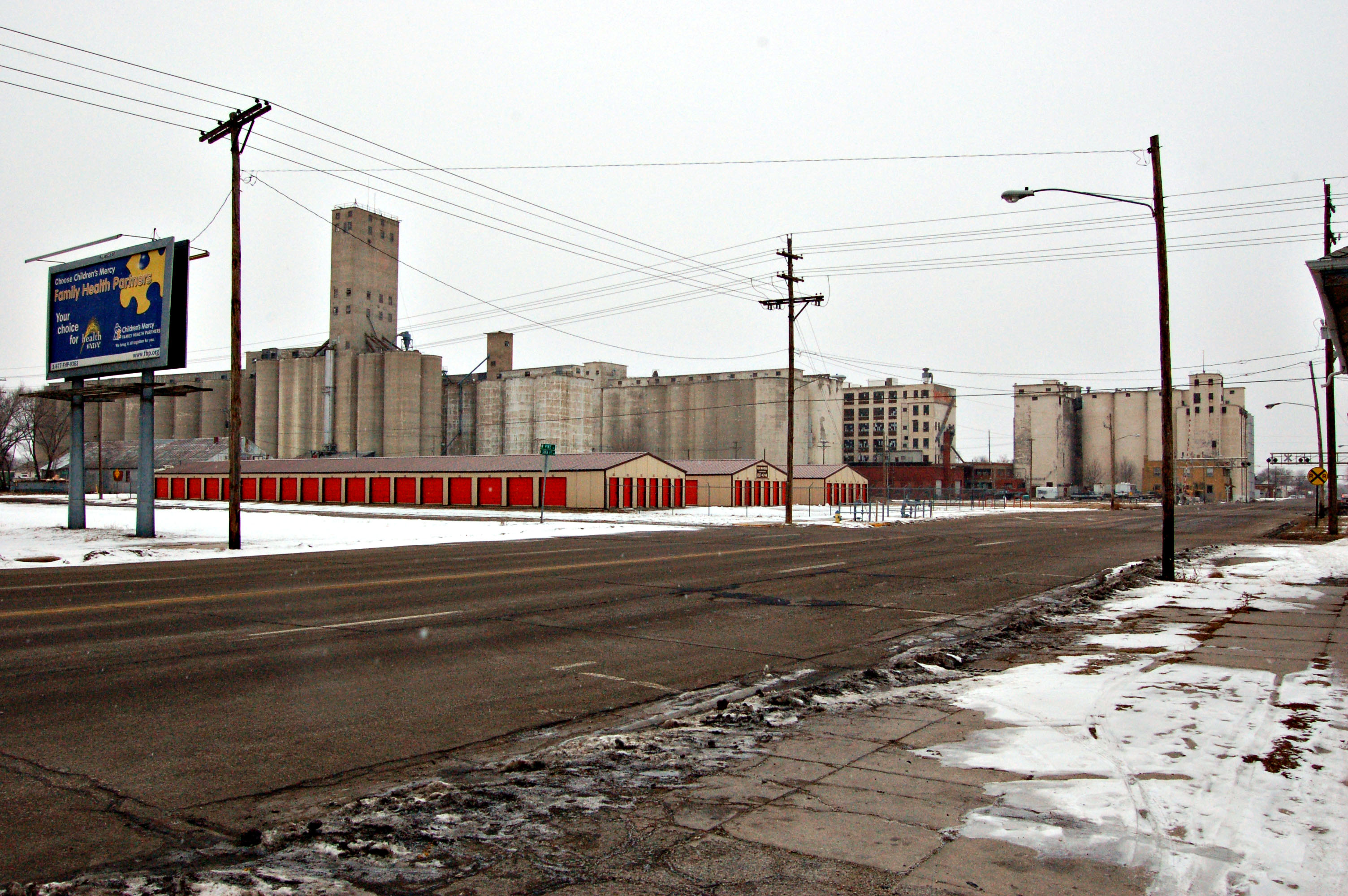 A grain elevator complex in Salina, KS on February 3, 2007.